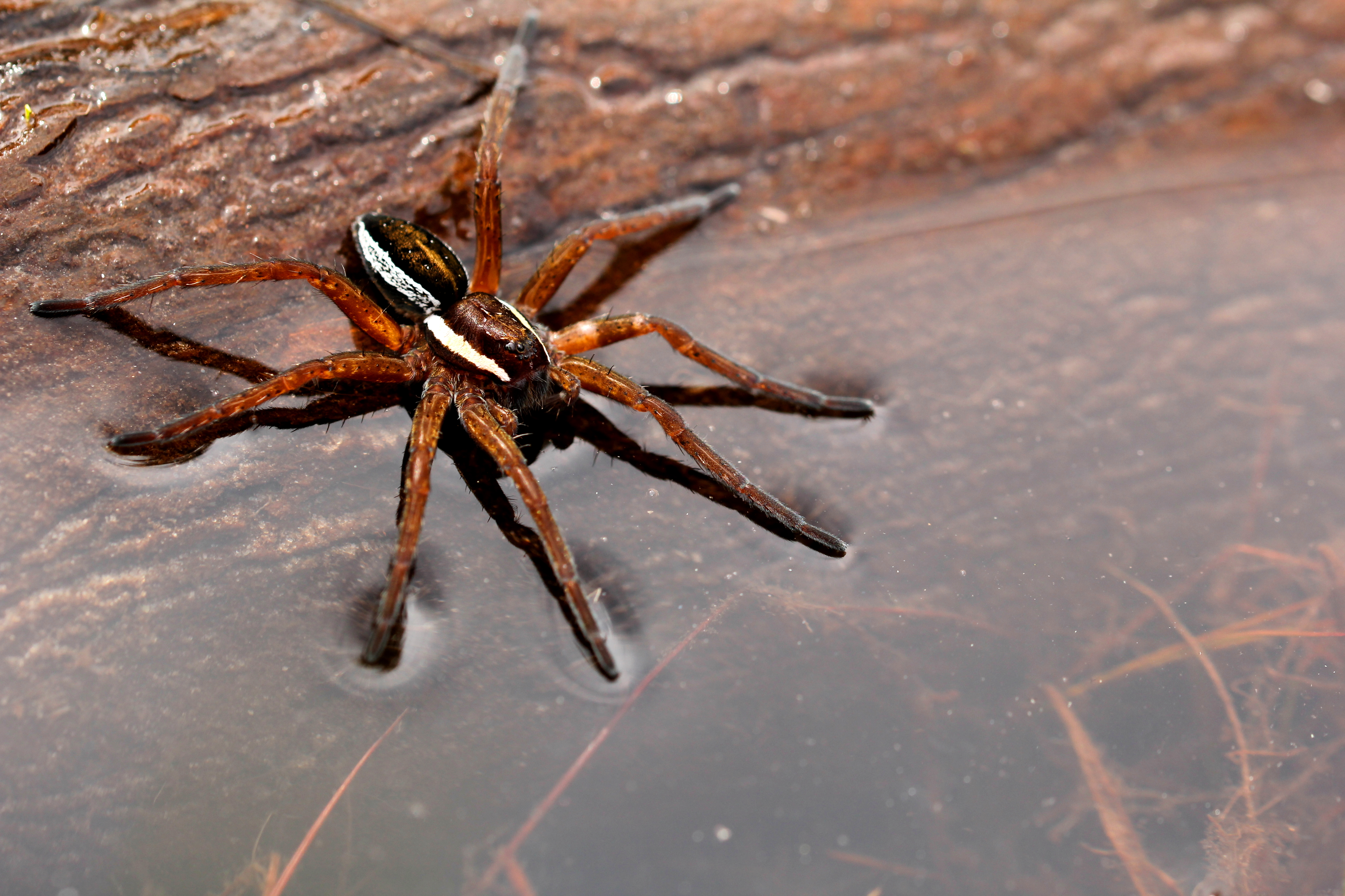 Dolomedes fimbriatus attack position